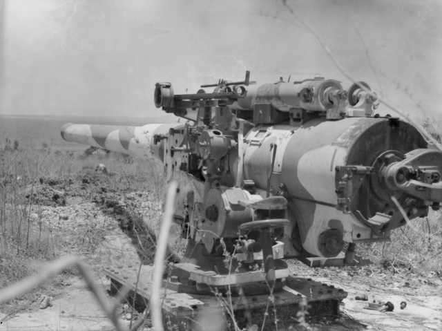 KALAPA LIMA, TIMOR 1945-11-13. TIMFORCE. A SIX INCH COASTAL GUN THAT WAS MANNED BY THE 2/1ST AUSTRALIAN HEAVY BATTERY WHEN SPARROW FORCE OCCUPIED THE AREA IN LATE 1941 AND EARLY 1942. Comment : This appears to be a BL 6-inch Mk VII gun.